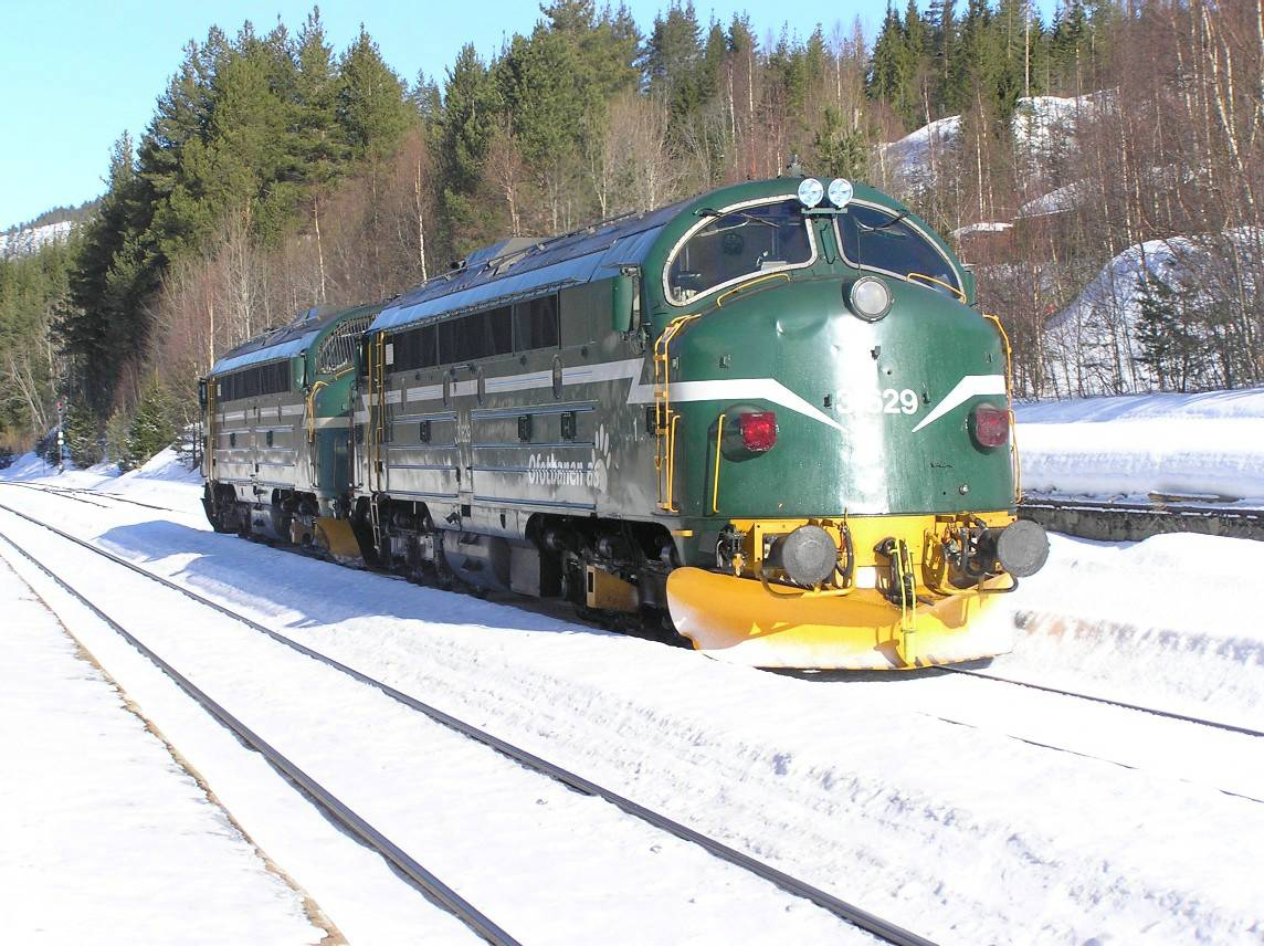 Diesel locomotive type Di. 3 in multipledrive from Ofotbanen AS, Norway